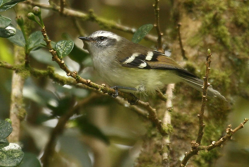 White-banded Tyrannulet (Mecocerculus stictopterus) at Cayambe-Coca Reserve, near Papallacta Pass, Ecuador.